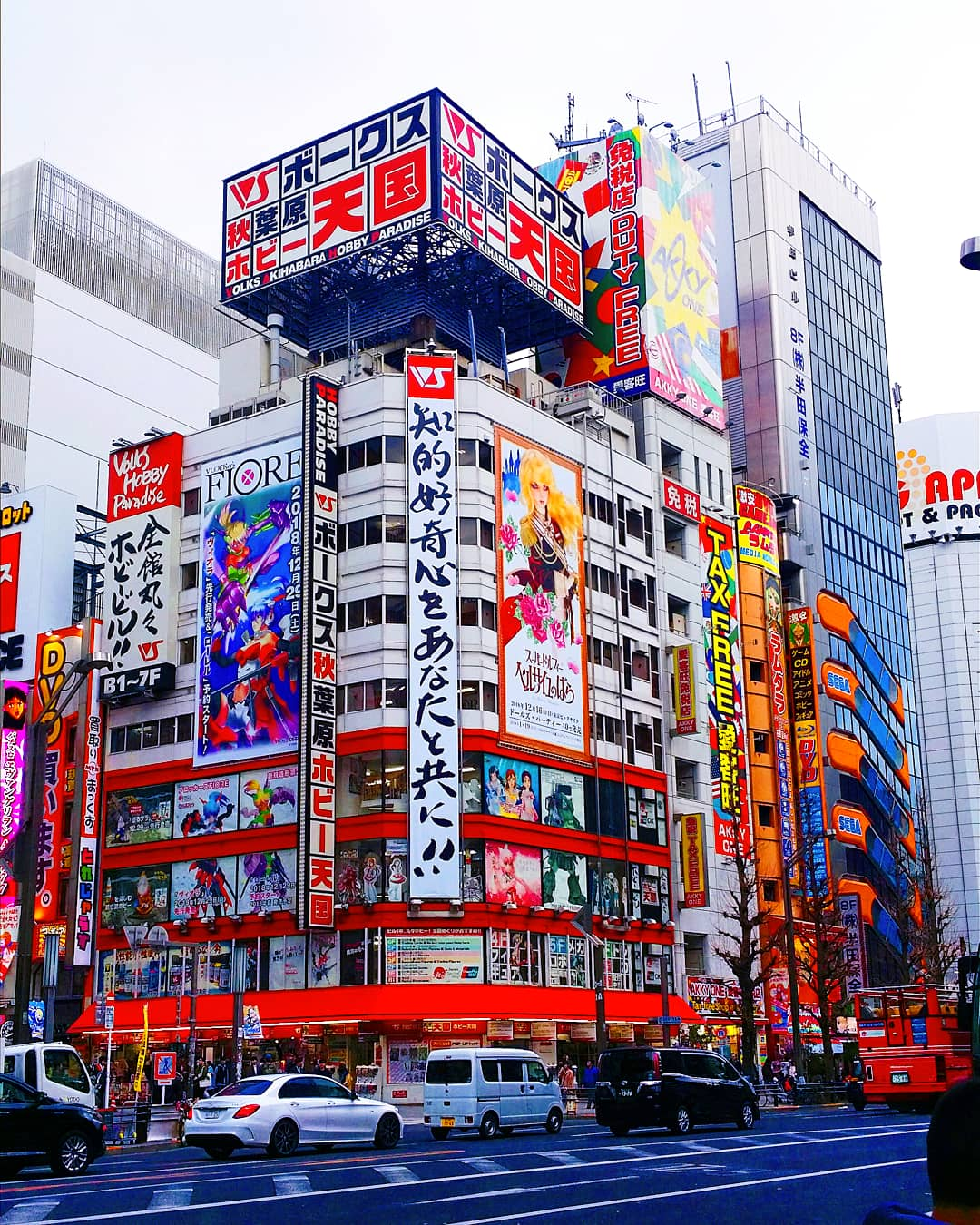 famous hobby store in Akihabara